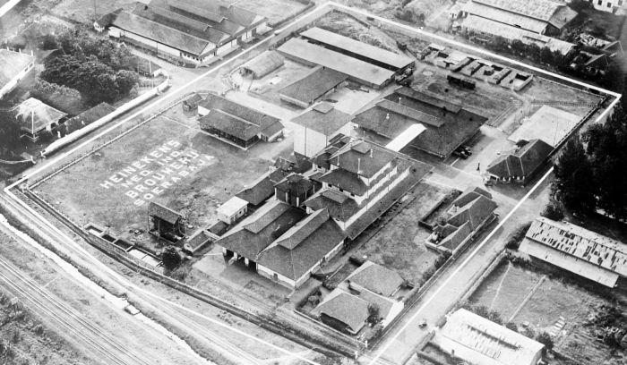 Air photo of the brewery of Heineken's Dutch East Indies Brewery Company in Surabaya